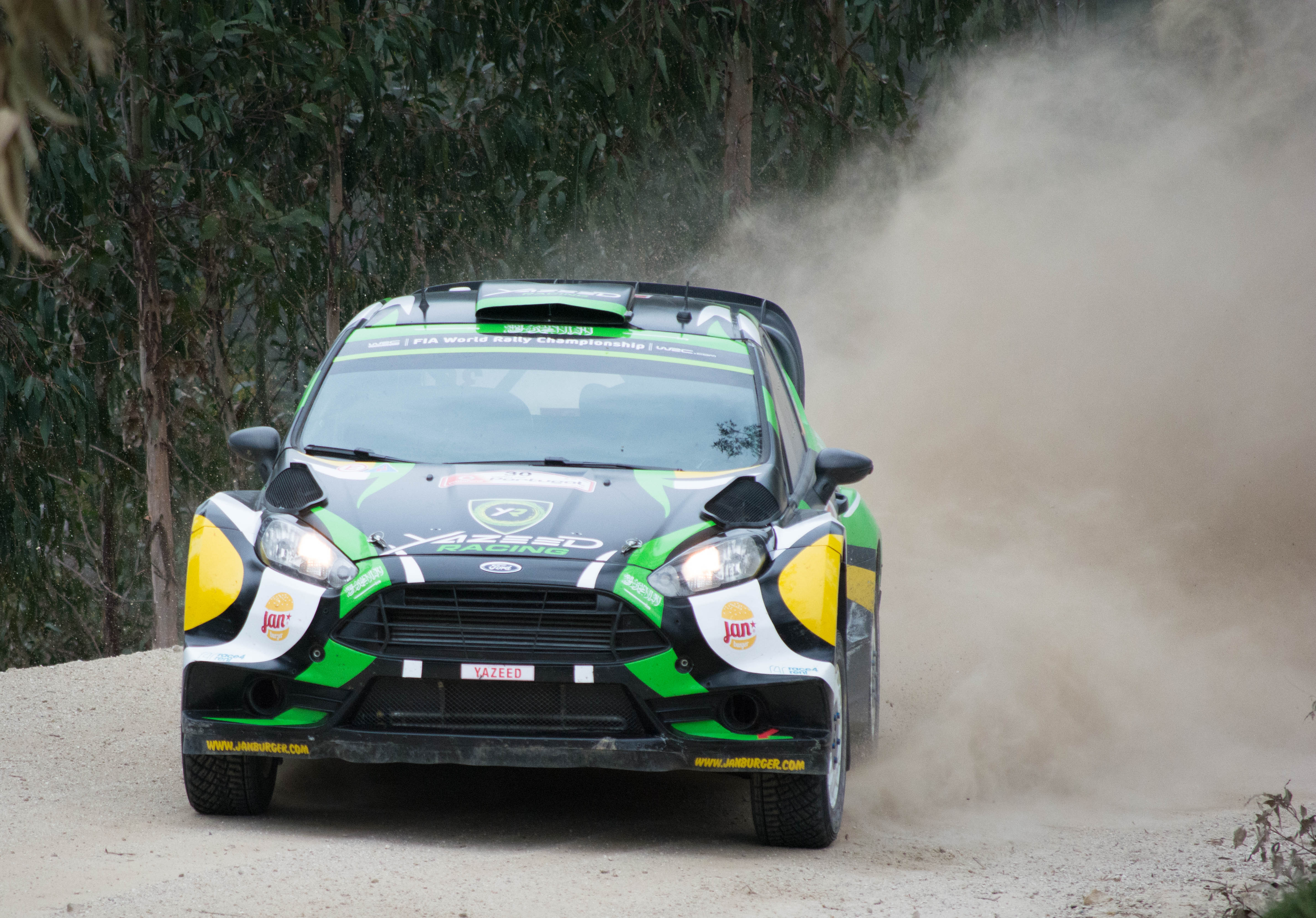 Rally of Portugal 2016. Section of "Amarante", on the first pass